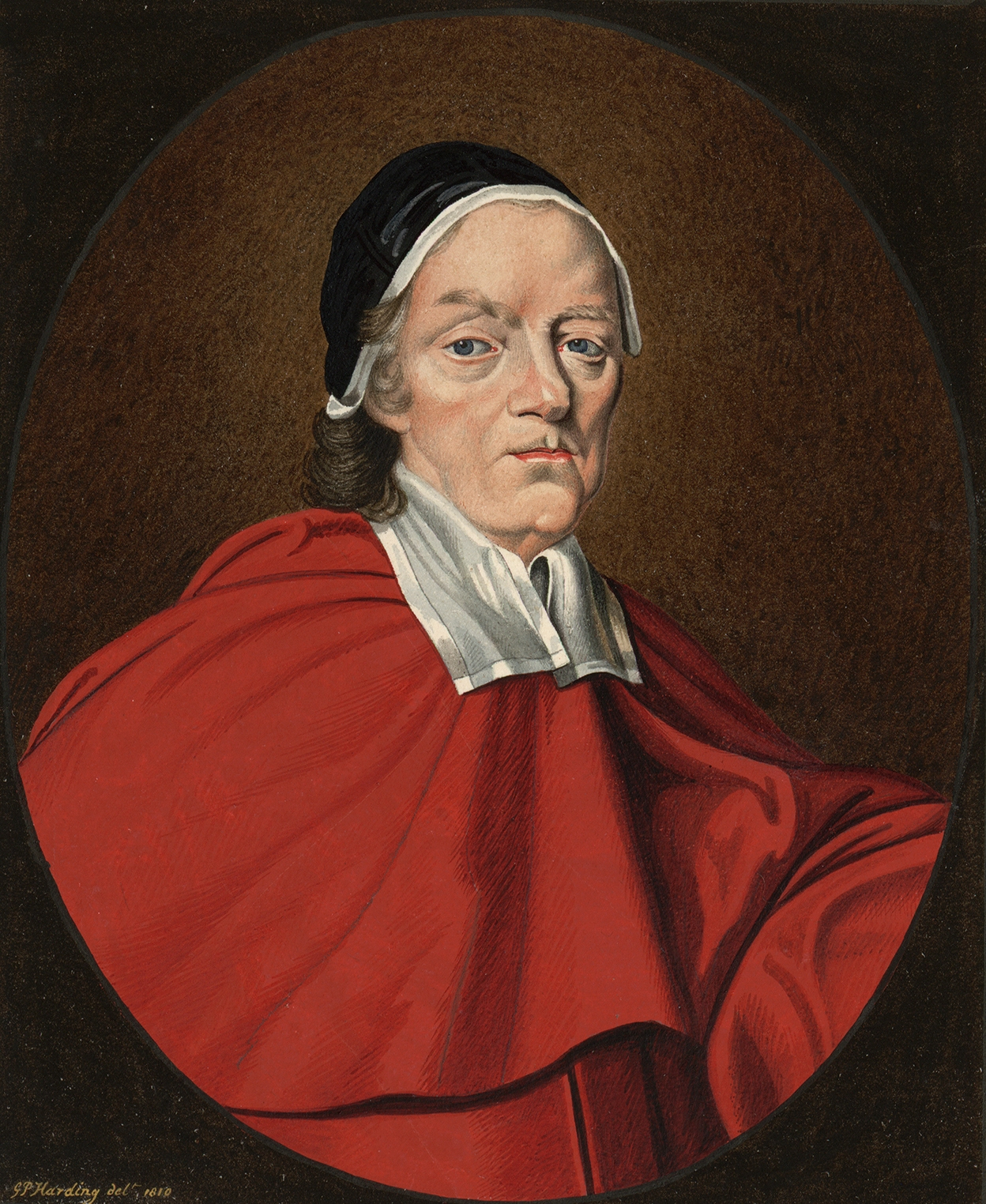 An image from a set of 8 extra-illustrated volumes of A tour in Wales by Thomas Pennant (1726-1798) that chronicle the three journeys he made through Wales between 1773 and 1776. These volumes are unique because they were compiled for Pennant's own library at Downing. This edition was produced in 1781. The volumes include a number of original drawings by Moses Griffiths, Ingleby and other well known artists of the period. Thomas Pennant (1726-1798)